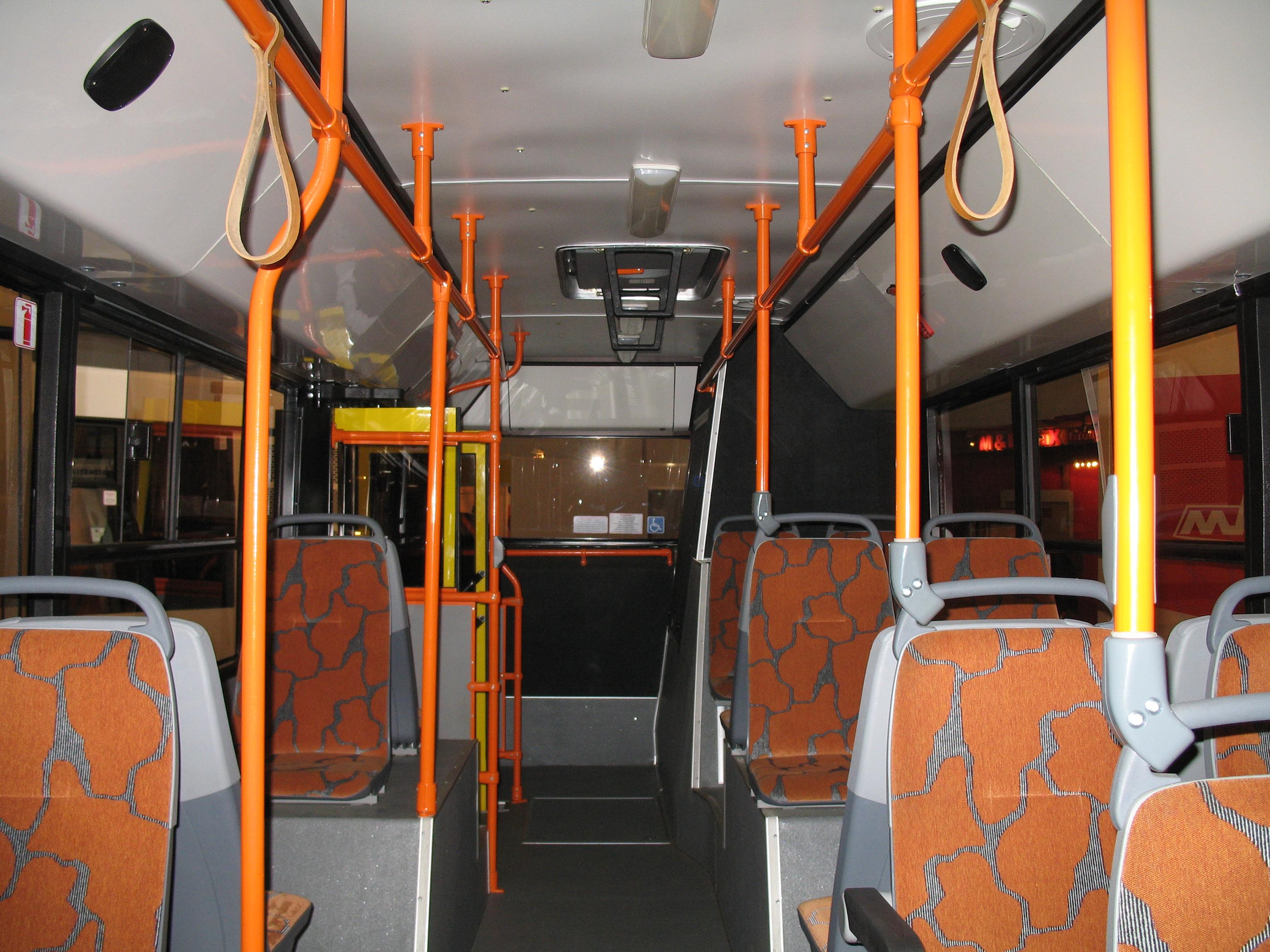 MAZ 107 bus (reg. AE 5257-7) in Kielce, Poland. Built 2008. Transexpo 2008.